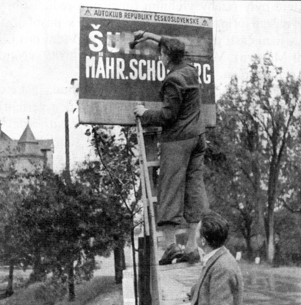 The Sudeten Germans destroyed Czech name of the city Šumperk